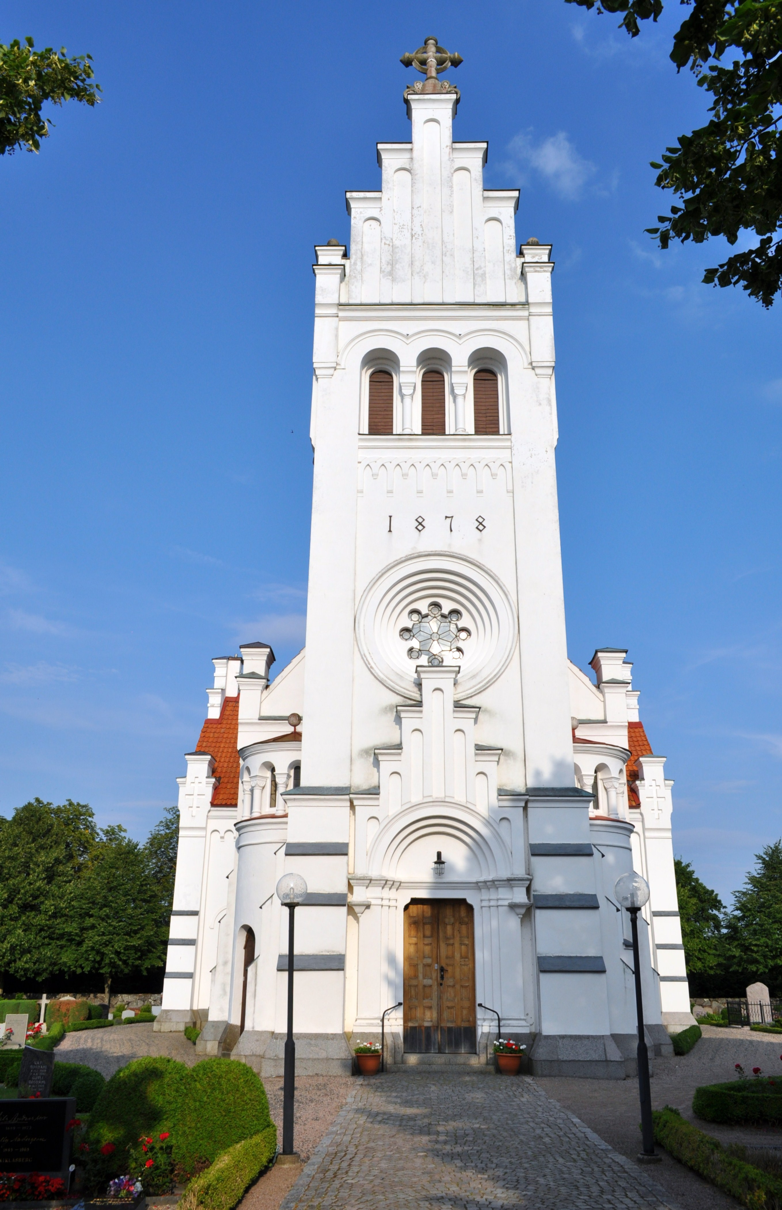 Österlövs church - kyrka